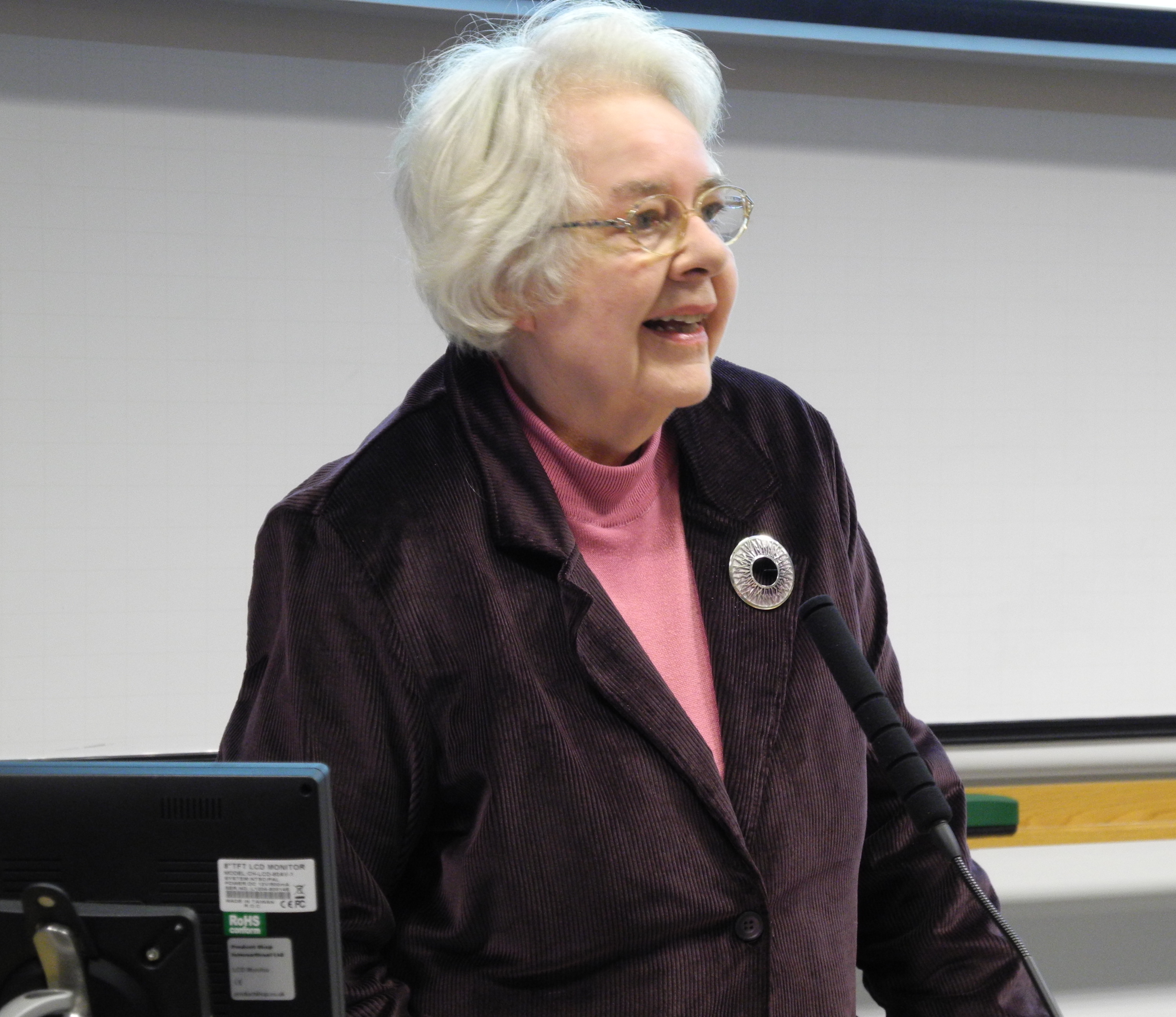 Professor Christian Kay, of the University of Glasgow, taken in 2013